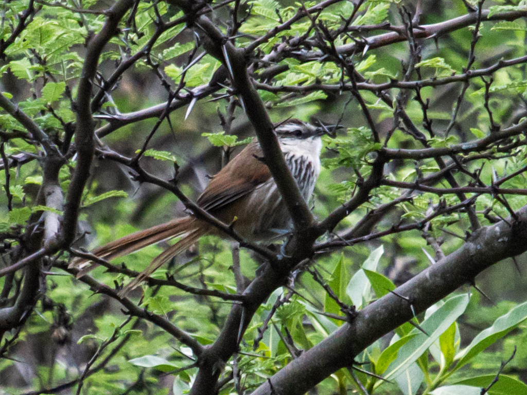 Great Spinetail from San Marcos, Cajamarca, Peru.